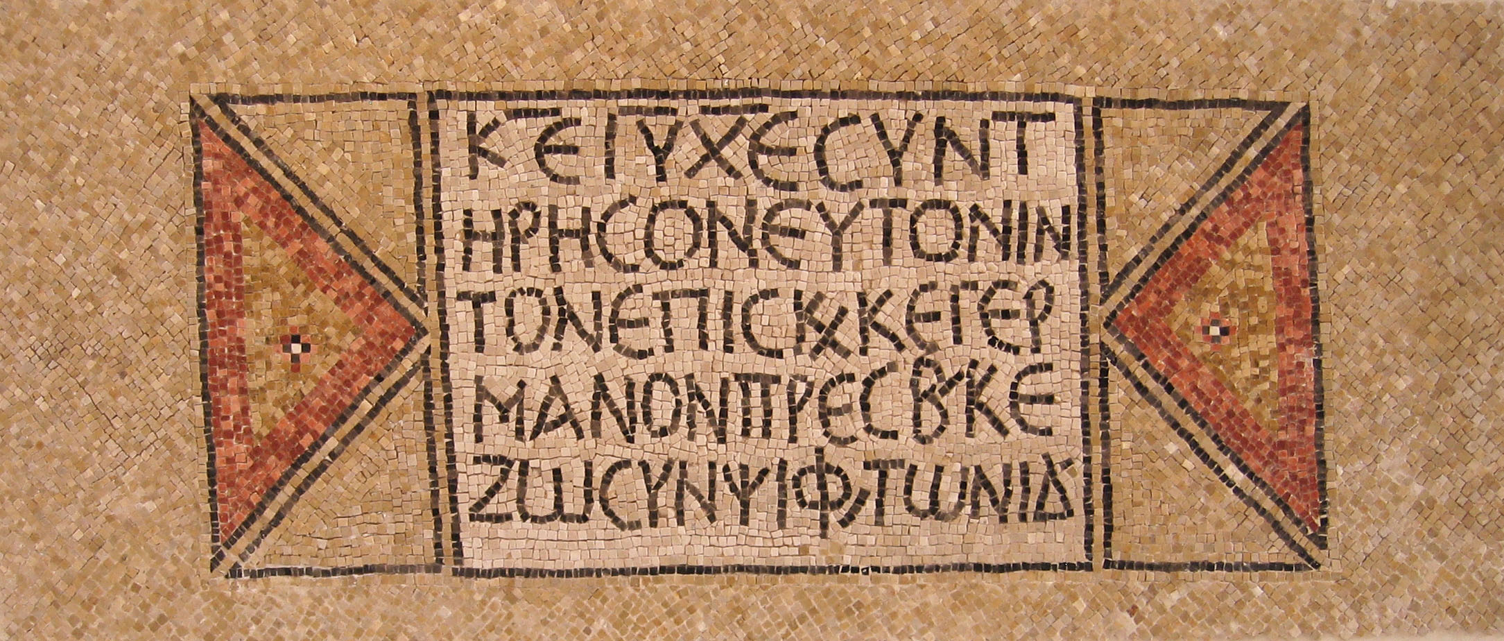 text reads: Κ-Ε Ι-Υ Χ-Ε CYNT HΡHCONΕΥΤΟΝΙΝ ΤΟΝΕΠΙCΚ*ΚΕΓΕΡ ΜΑΝΟΝΠΡΕCΒ*ΚΕΖΩ CΥΝΨΙΦ*ΤΩΝΙΔ* in modern Greek C becomes Σ, therefore: Κ-Ε Ι-Υ Χ-Ε ΣYNTHΡHΣONΕΥΤΟΝΙΝΤΟΝΕΠΙΣΚ*ΚΕΓΕΡΜΑΝΟΝΠΡΕΣΒ*ΚΕΖΩΣΥΝΨΙΦ*ΤΩΝΙΔ* the first acronyms (Κ-Ε Ι-Υ Χ-Ε) stand for ΚΥΡΙΕ ΙΗΣΟΥ ΧΡΙΣΤΕ (LORD JESUS CHRIST)